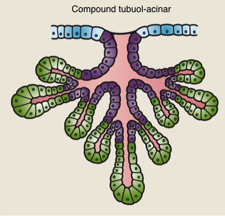 This image shows an example of a compound tubulo-acinar gland.